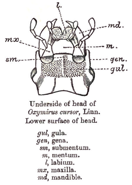 Terminology of Cerambycidae head